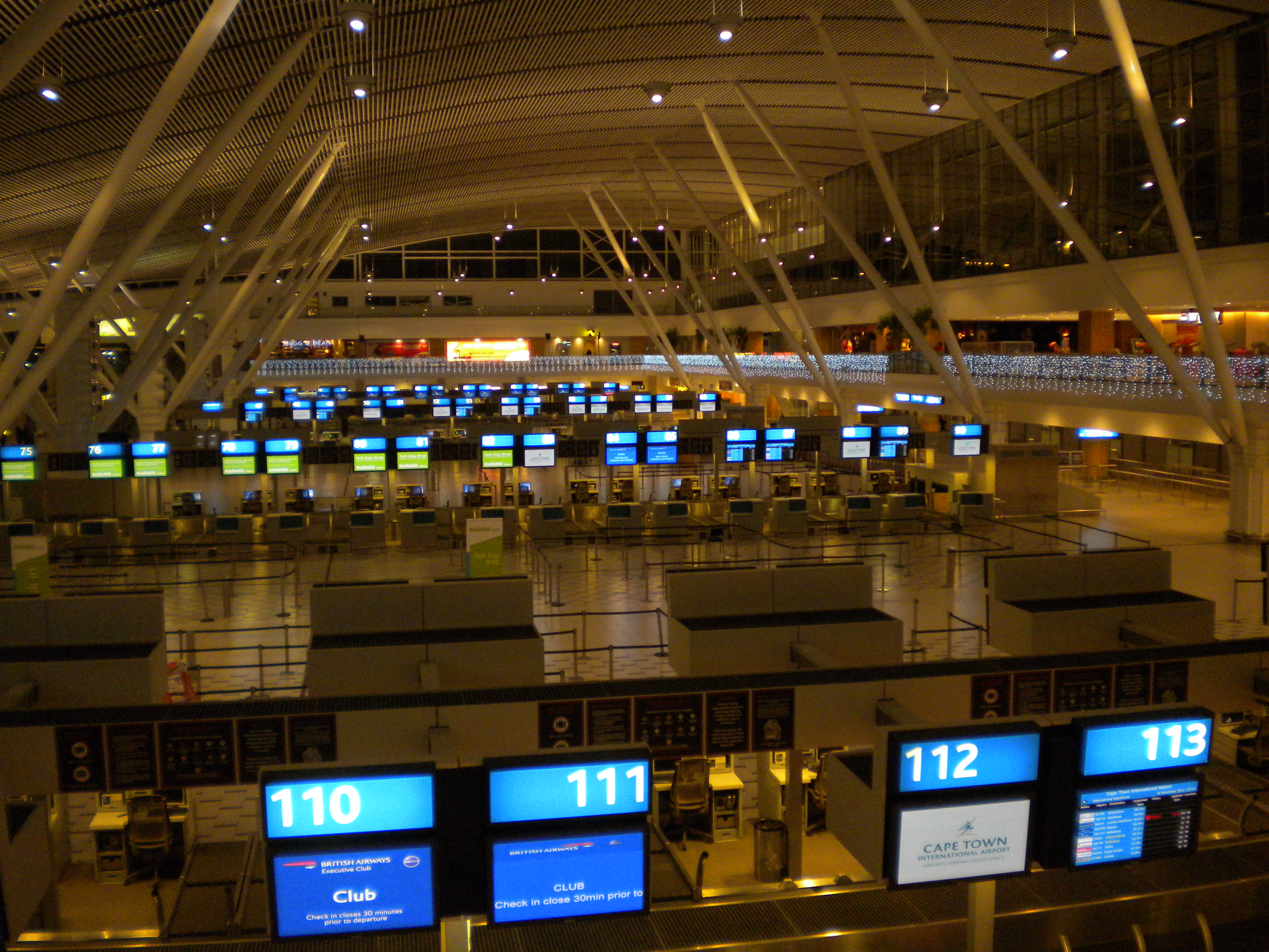 Cape Town International Airport – Central Departures Hall late at night